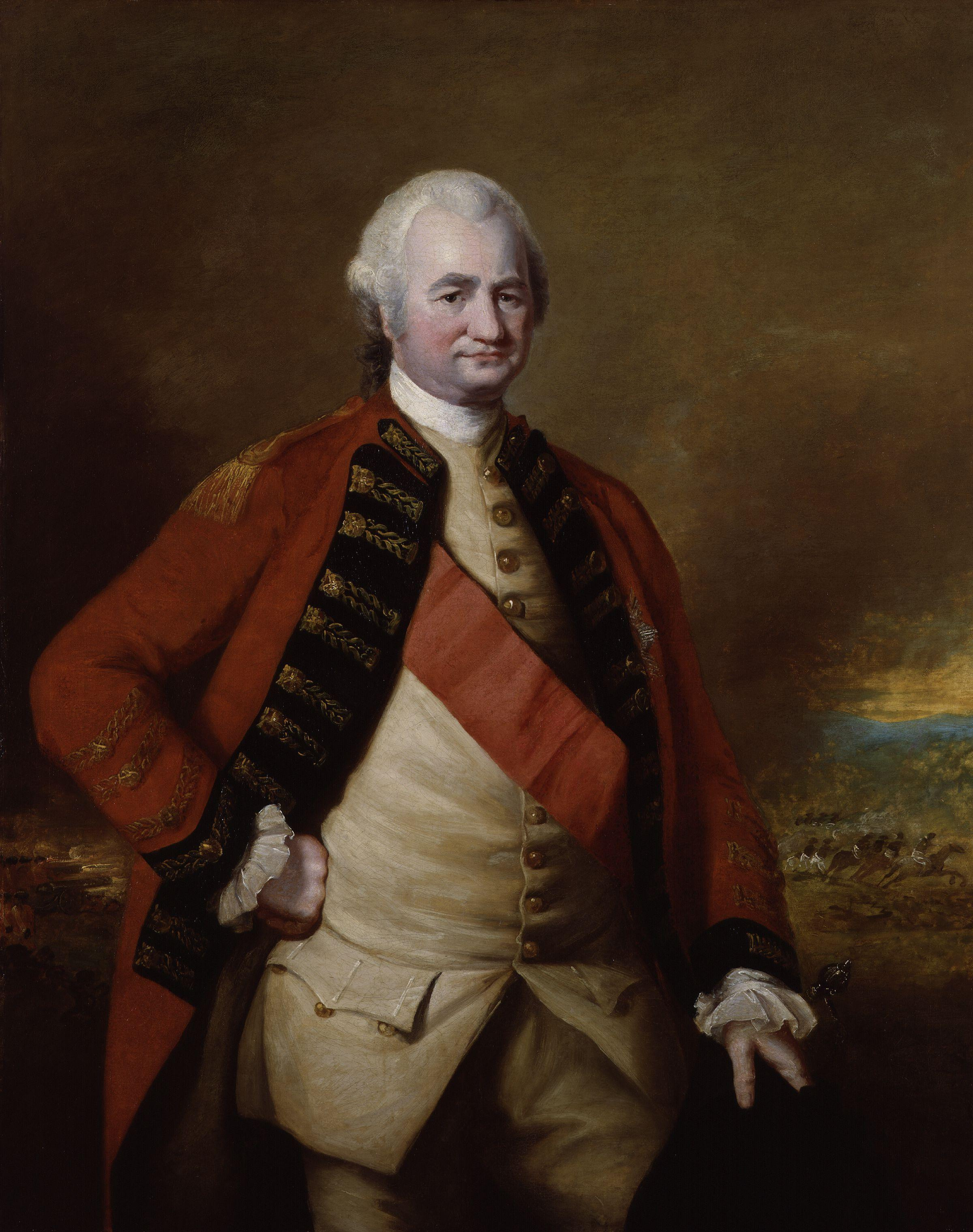 Robert Clive, 1st Baron Clive, by Nathaniel Dance, (later Sir Nathaniel Dance-Holland, Bt) (died 1811). All images in this batch have been confirmed as author died before 1939 according to the official death date listed by the NPG.